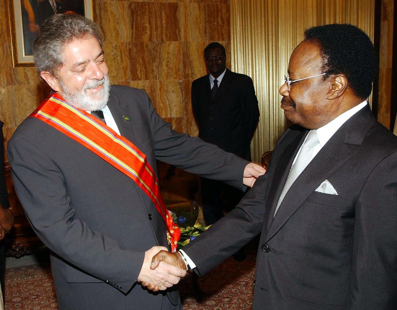 Presidents Lula da Silva of Brazil and Omar Bongo of Gabon meet in Libreville.